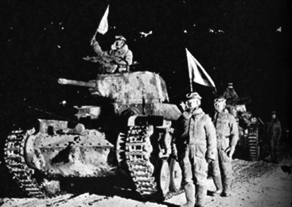 A Type 97 ShinHoTo Chi-Ha tank of the 3rd Tank Division of the Imperial Japanese Army operating at night during the Operation Ichi-gō in northern China, December 1944